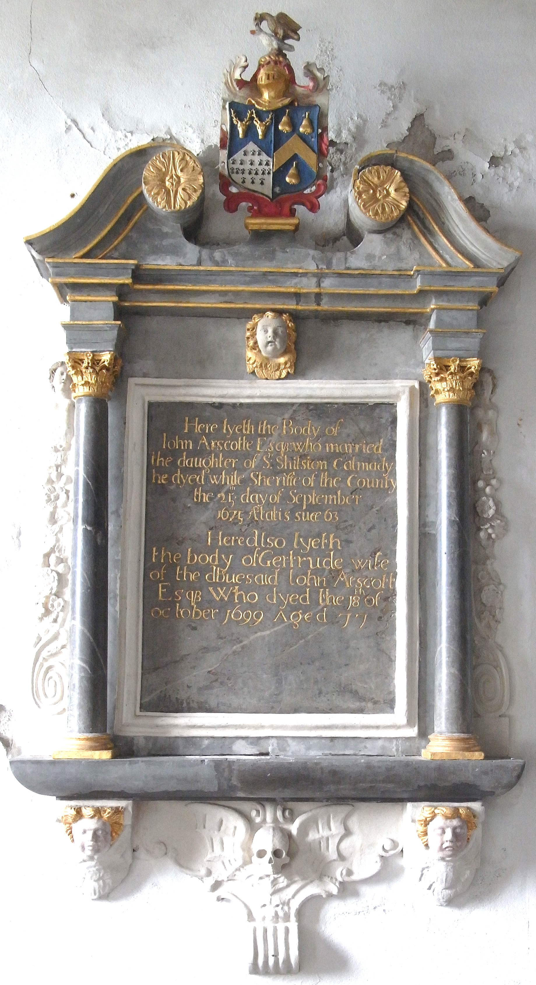 Mural monument to John Arscott (1613-1675) of Tetcott, Sheriff of Devon. Arscott Chapel of Holy Cross Church, Tetcott, Devon. Inscription: "Here lyeth the body of John Arscotte Esq. who married the daughter of Sr. Shilston Calmady. He dyed while sheriffe of the county the 25th day of September 1675 aetatis suae 63. Here also lyeth the body of Gertrude wife of the above said John Arscott Esq. who dyed the 18th of October 1699 aged 77"